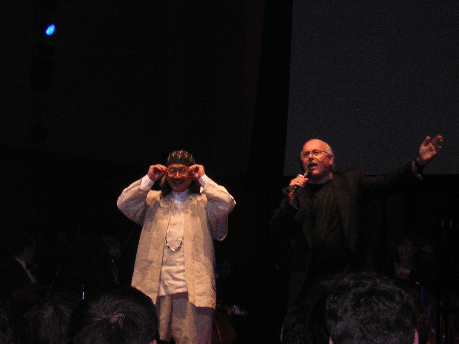 Composer Nobuo Uematsu and Conductor Arnie Roth at the Distant Worlds: Music From Final Fantasy concert on July 11, 2009 in Benaroya Hall, Seattle, WA.